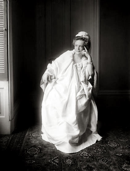 Swami Laura Horos, a late 19th and early 20th century medium, was convicted of fraud several times in the United States. Horos used many aliases, including the one used for this photo title: Madame Ann O'Delia Diss Debar.